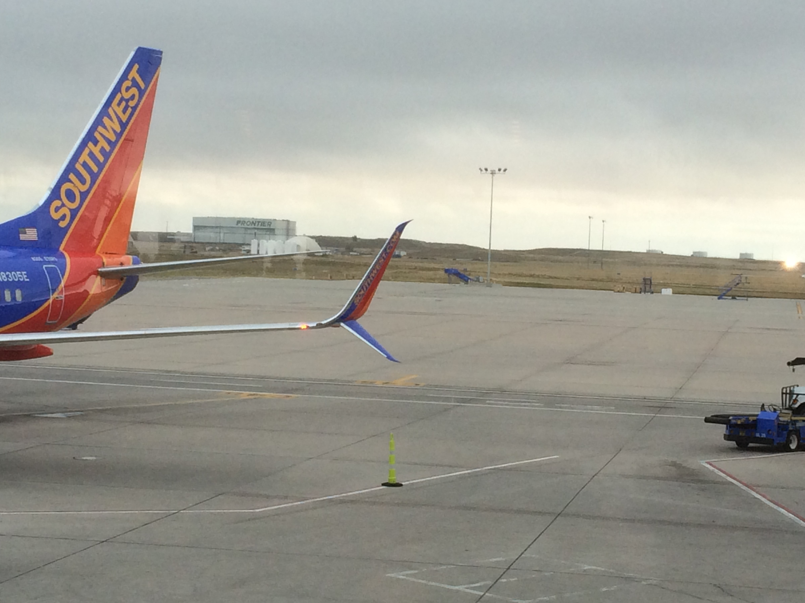 This unusual winglet has an upper segment extending out from the tip of the wing and bending towards the sky, with a lower portion extending perpendicularly from the upper portion's bend at an angle down and away from the body of the plane.